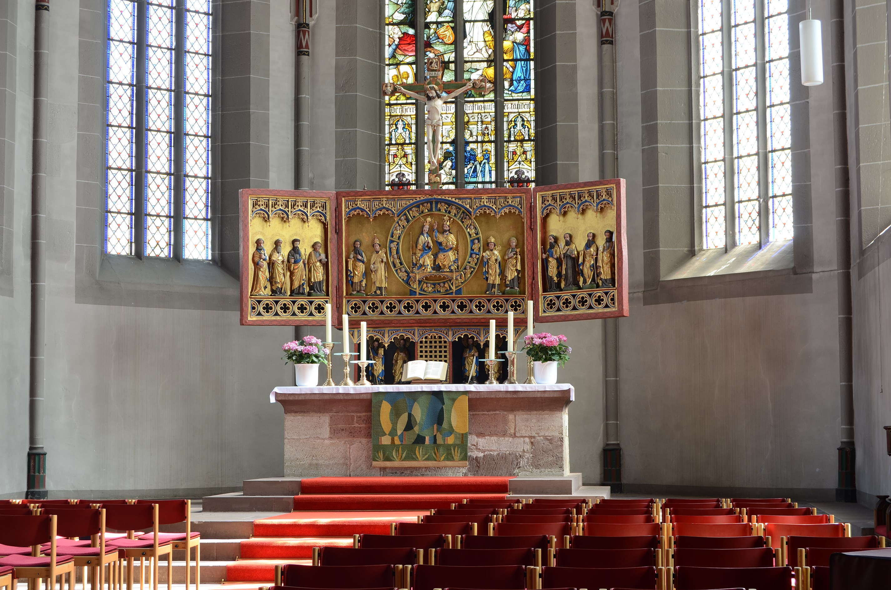 This is a photograph of an architectural monument.It is on the list of cultural monuments of Northeim This photograph was taken with a Nikon D7000 Northeim, Evangelisch-lutherische Kirche St. Sixti, Altar